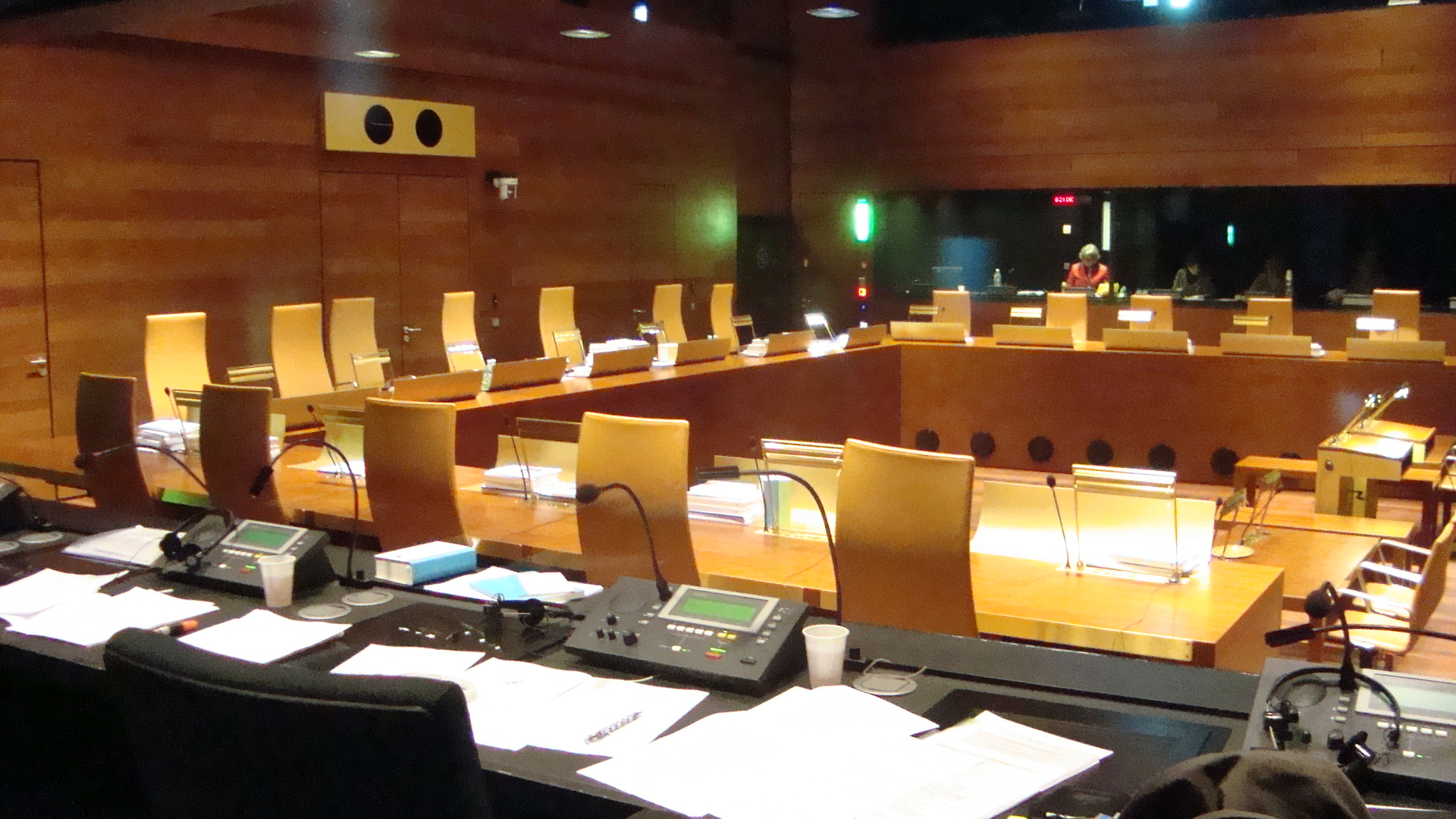 View from the interpretation booth of the medium courtroom on level 6 of the the Palais building, Court of Justice of the European Union, Kirchberg, Luxembourg City, Luxembourg, February 2012.